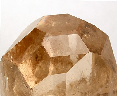 Topaz Locality: Dassu (Dasso; Dusso), Shigar Valley, Skardu District, Baltistan, Northern Areas, Pakistan (Locality at ) Size: small cabinet, 6.2 x 5.0 x 4.8 cm (284 grams) Topaz A stunning, brilliantly lustrous topaz with exquisite termination, and complete-all-around. Totally pristine on all those multiply beveled faces. This piece has glassy lustre and a very nice color for the material. It is also very gemmy. There is more opacity around the bottom 1/5th of the piece.